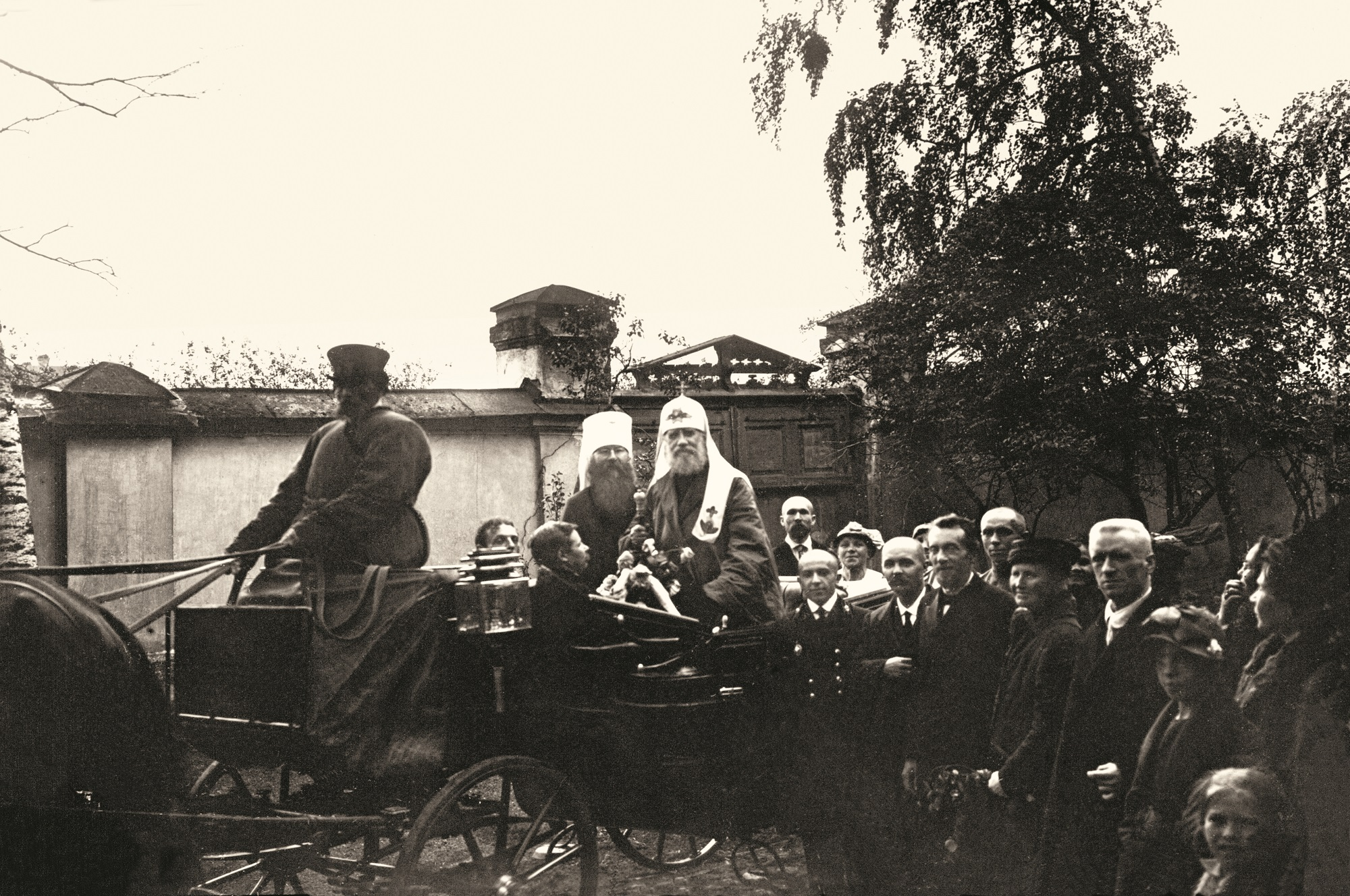 Patriarch Tikhon during his visit to Petrograd in 1920, accompanied by metropolitan Benjamin of Petrograd